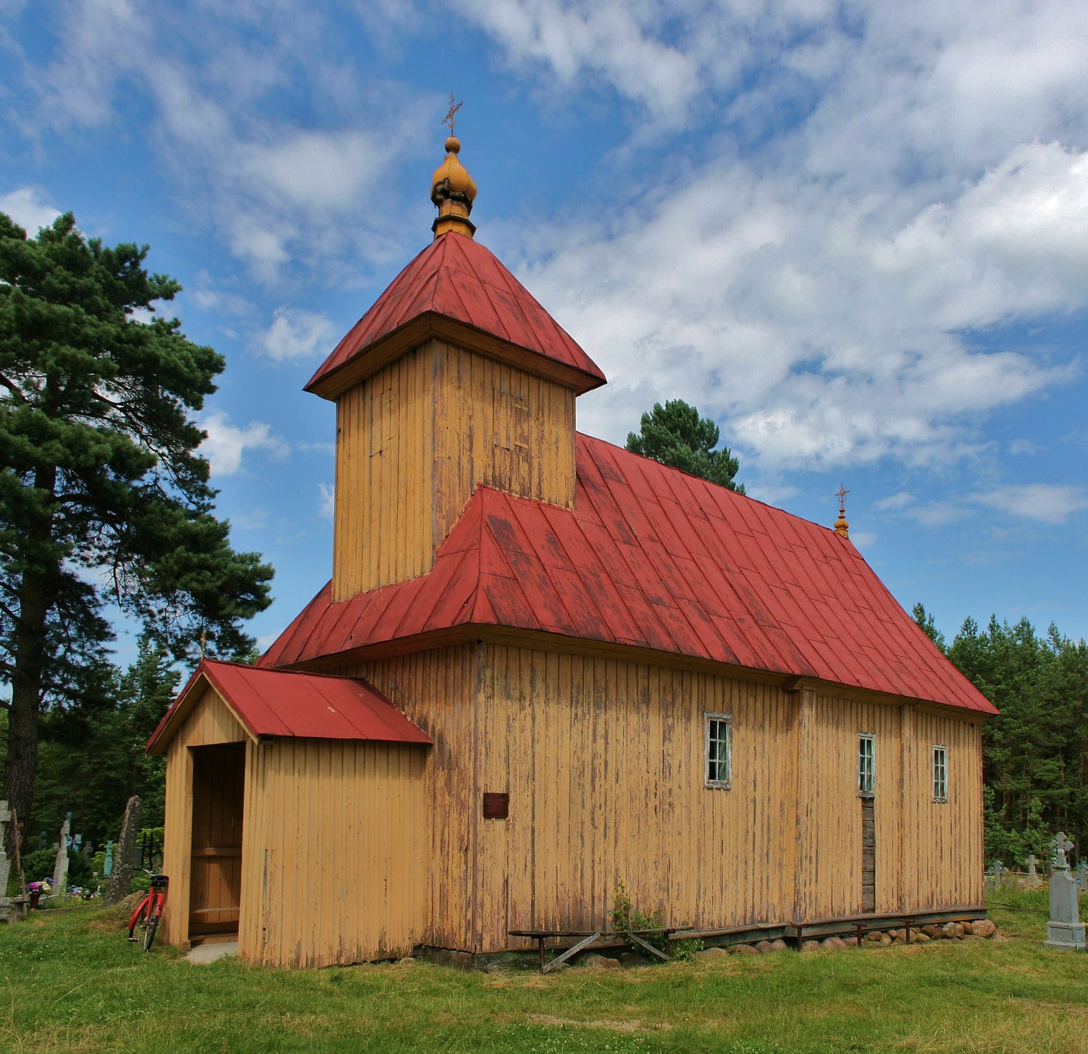 Orthodox church of St. Kosma and Damian in Czyże.